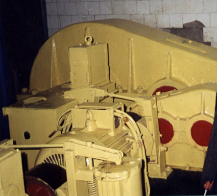 One of the lifting motors of the Palace bridge, Saint Petersburg, Russia